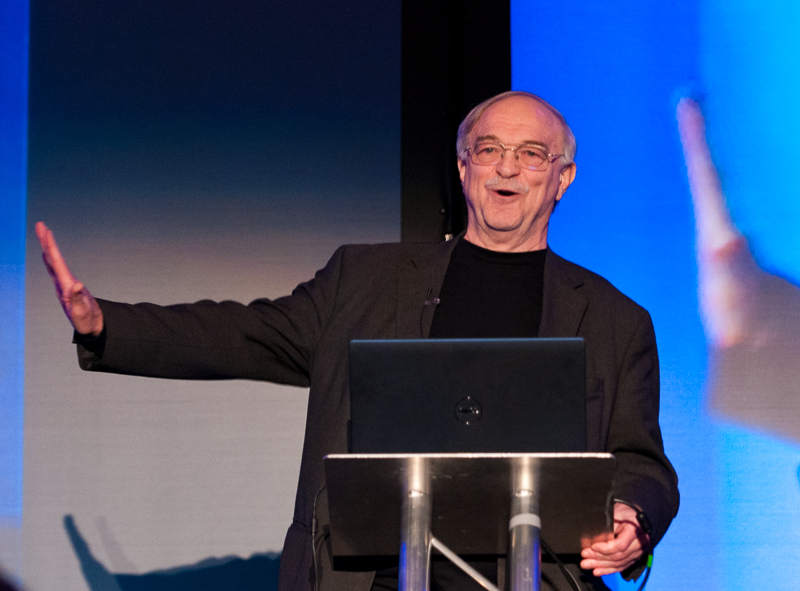 Joe Nickell gives a great talk on being a paranormal investigator at QED Con 2012.